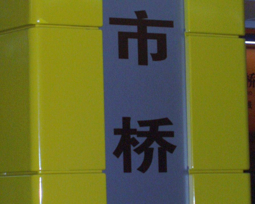 Sign of Station in Shiqiao of Guangzhou Metro